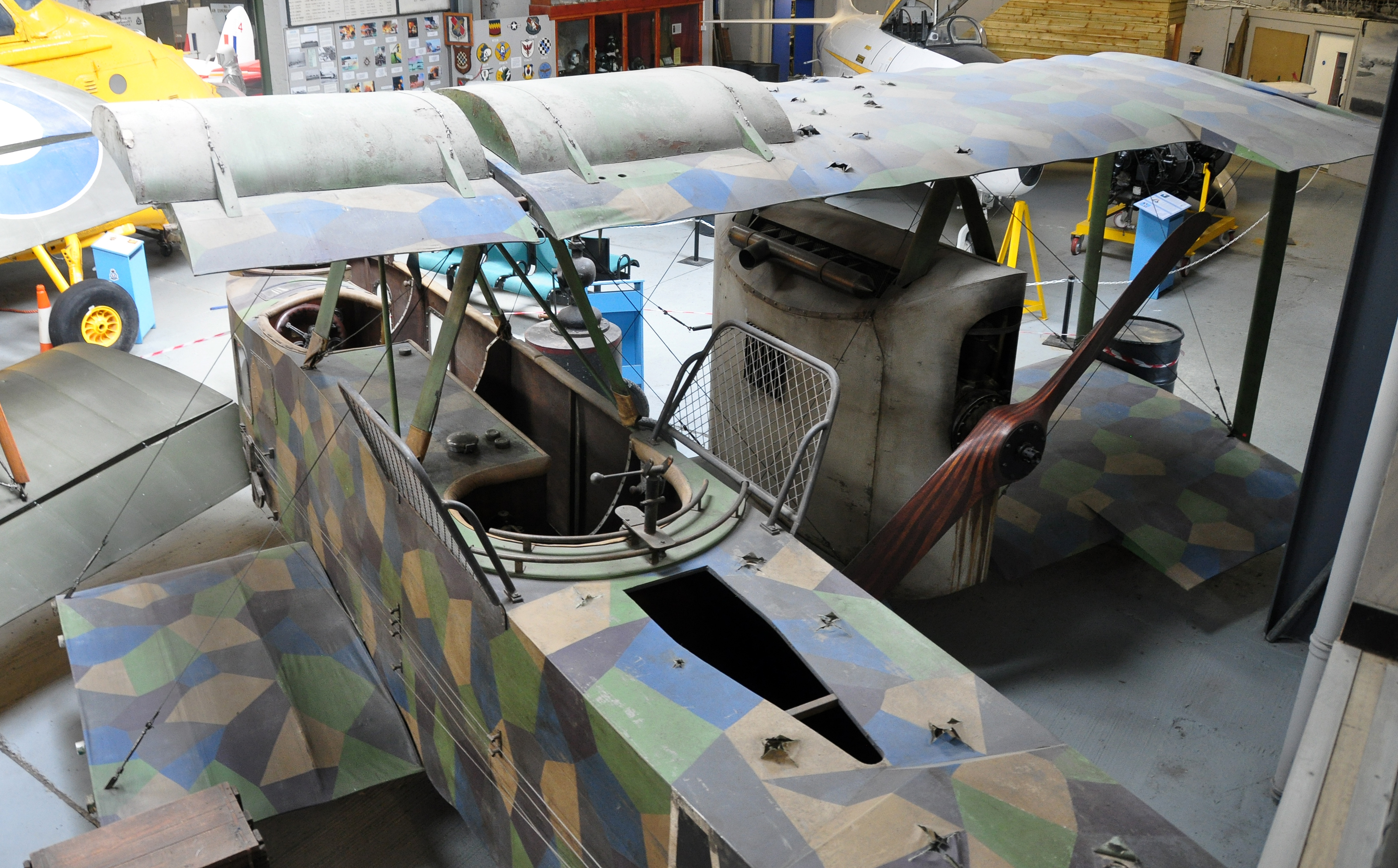 A replica of a World War I Gotha bomber at the RAF Manston History Museum in Kent.